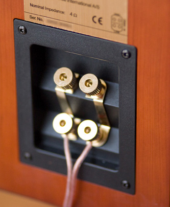 Bi-amp capable Self-made.